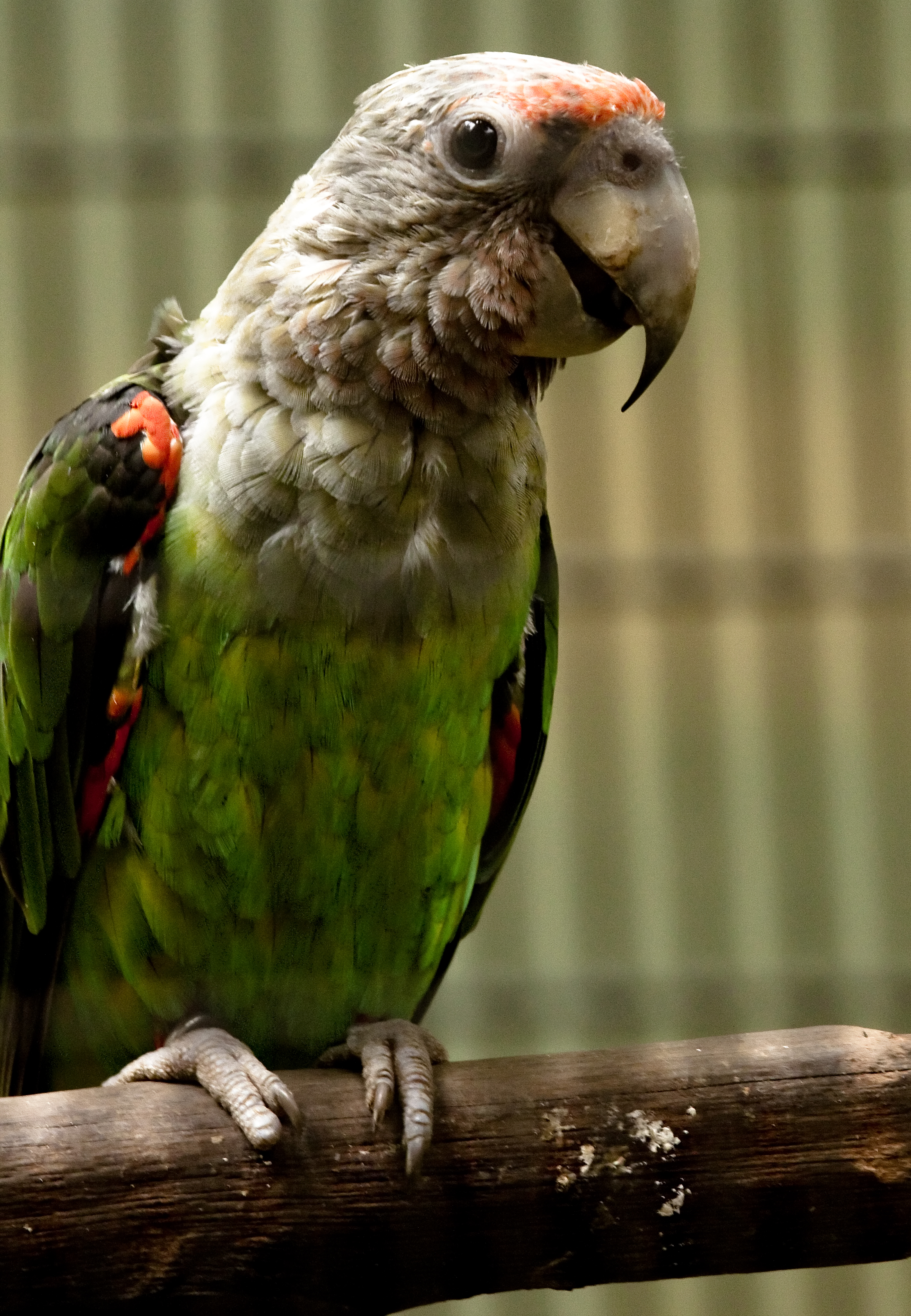 A Brown-necked Parrot at Jurong Bird Park, Singapore.